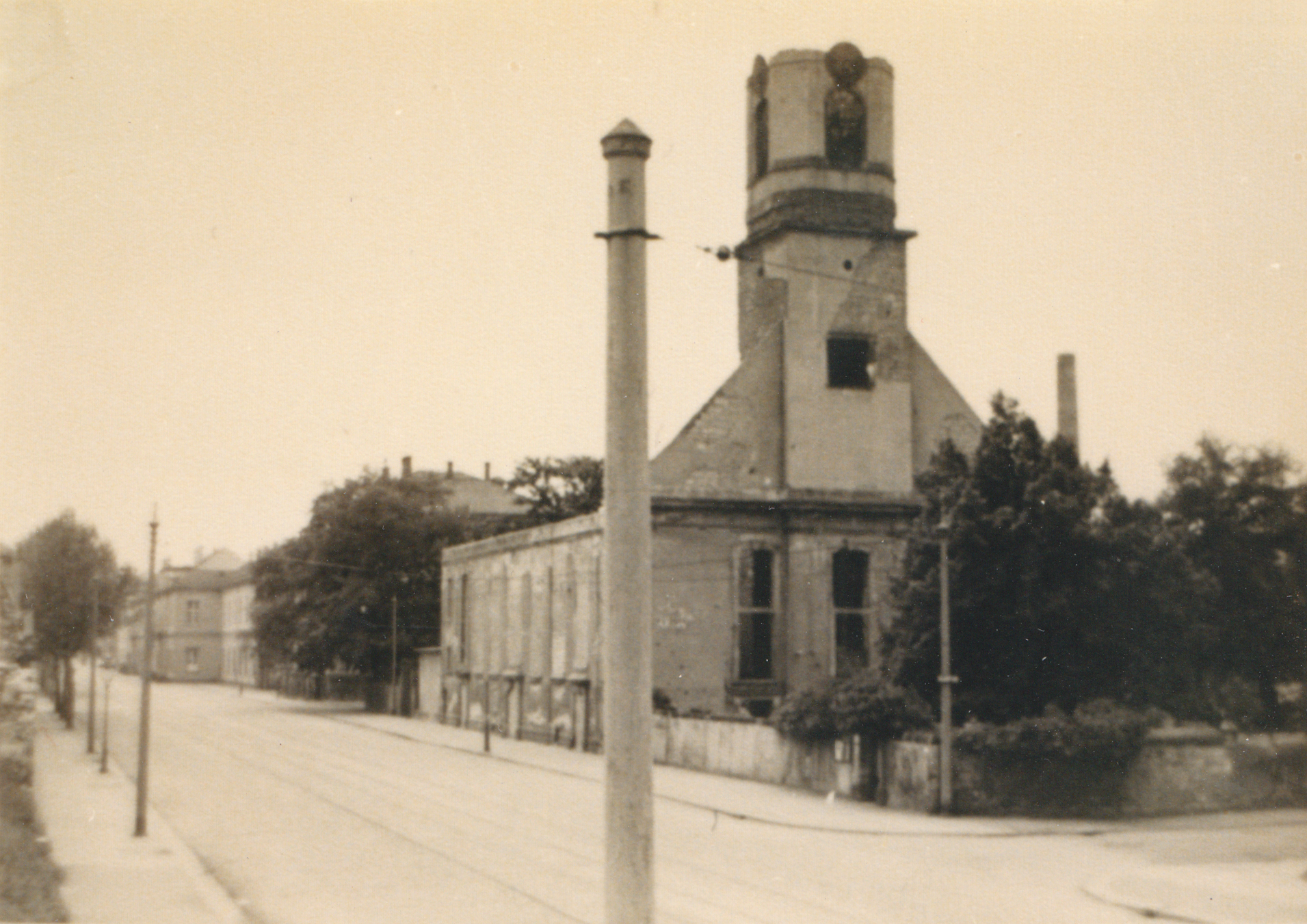 Matthäuskirche in Dresden shortly after WWII